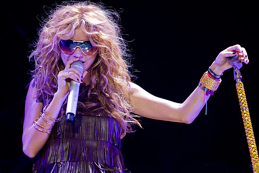 Paulina Rubio. Performing a live concert in the Asics Music Festival, Barcelona, October 2007.